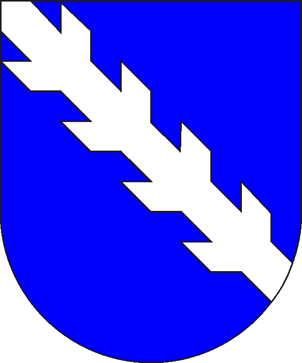 Coats of arms of the lordship of Justingen